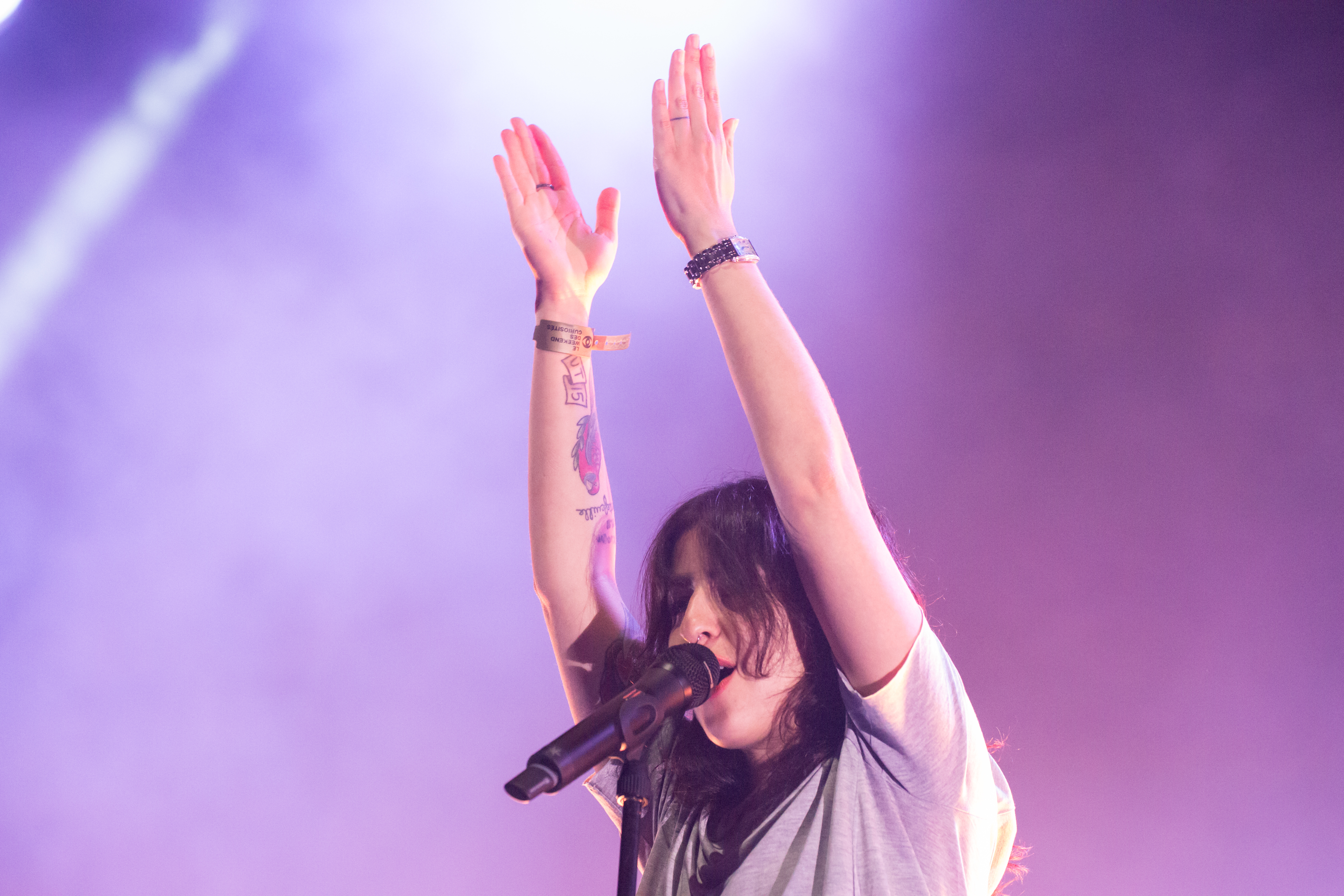 Lilly Wood & The Prick at "le weekend des curiosités 2015", Ramonville, France